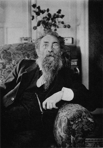 Photograph of the Dutch poet Johan Andreas dèr Mouw (1863-1919)